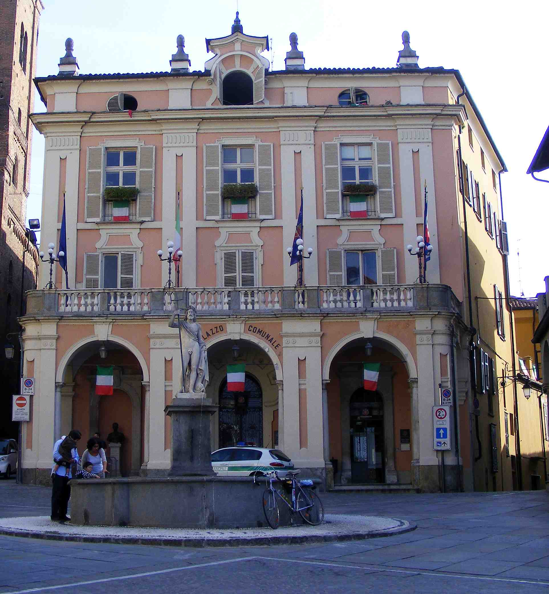 Moncalieri (TO, Italy): town hall